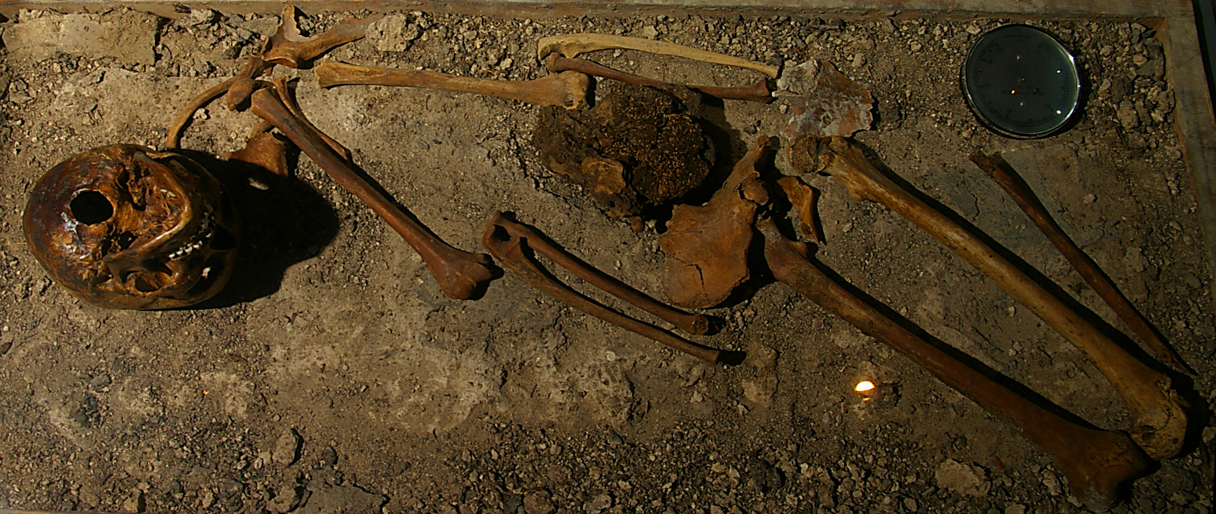 Hallonflickan "The Raspberry Girl". Cadaver found in bog 4 km south of Falköping Sweden.